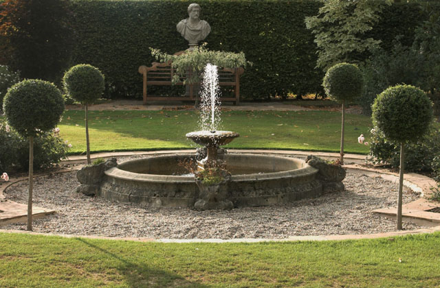 The Burrows Garden This recently-developed garden in the grounds of Burrows Farm has regular public open days during the summer months.